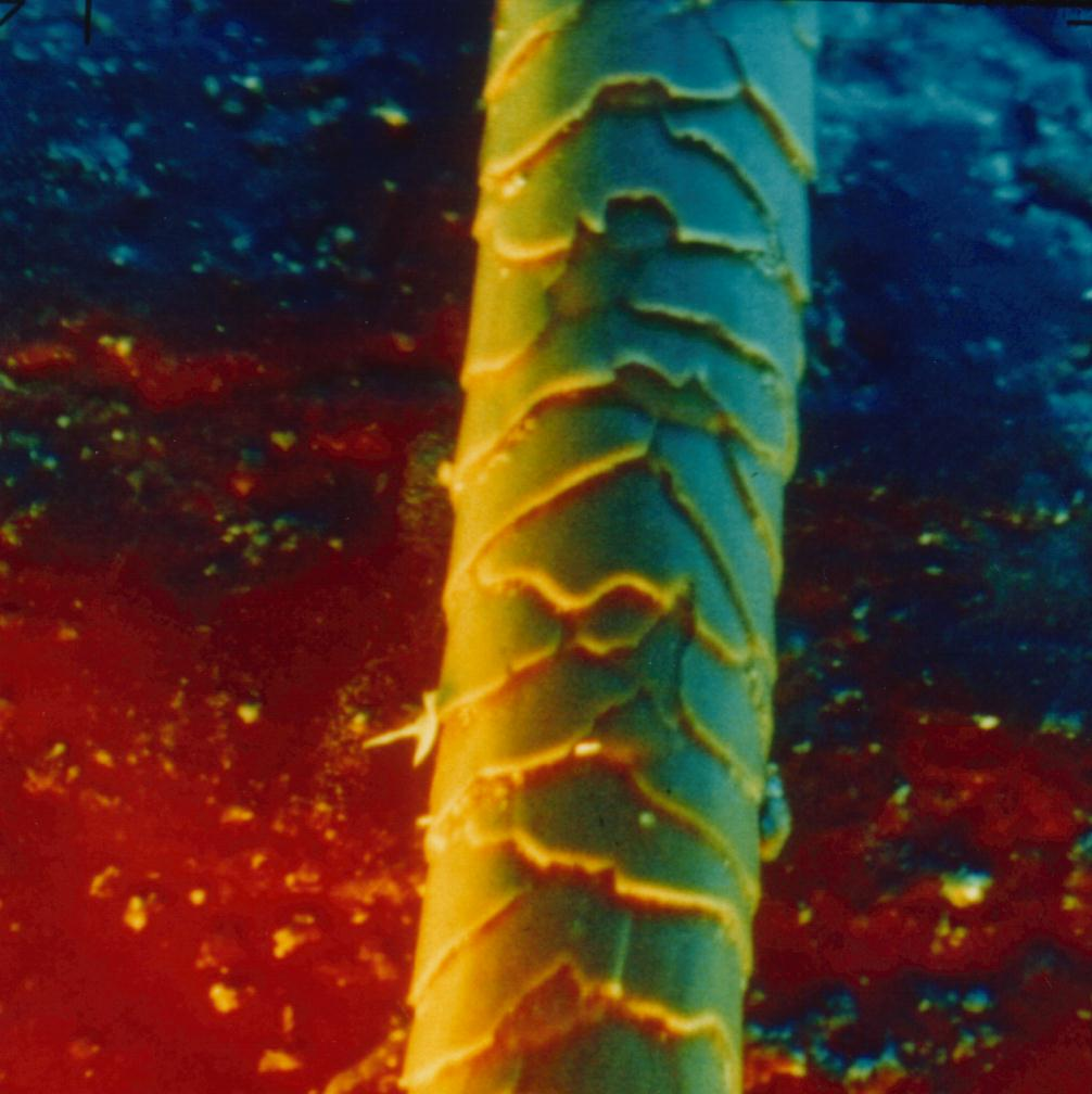 ESEM BSE image of uncoated cattle dog hair at 10 kV, 1000x, 700 Pa of water vapour and room temperature